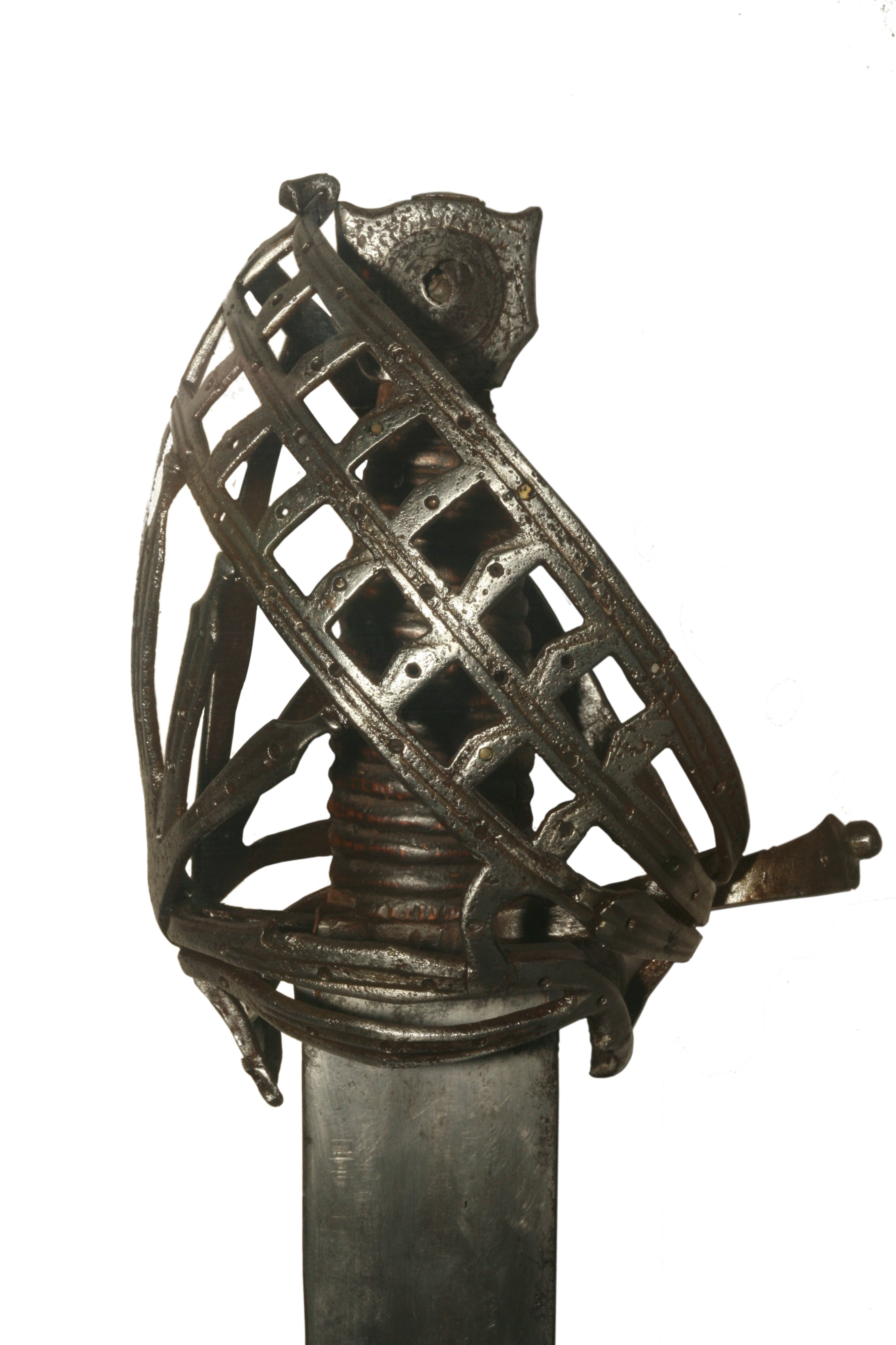 Venitian Schiavona, late 17th Century